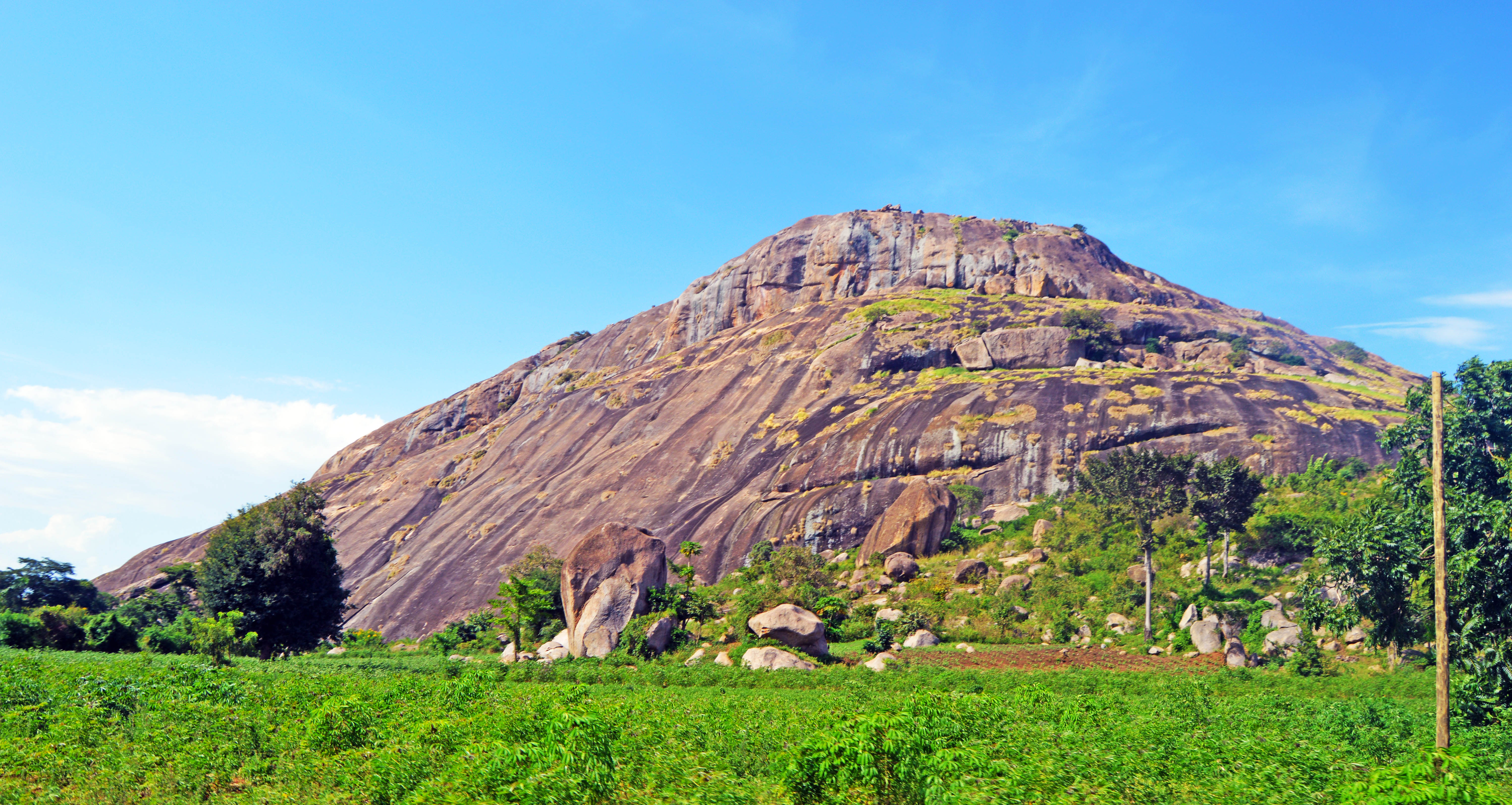 Kagulu Sub-county in Budiope.